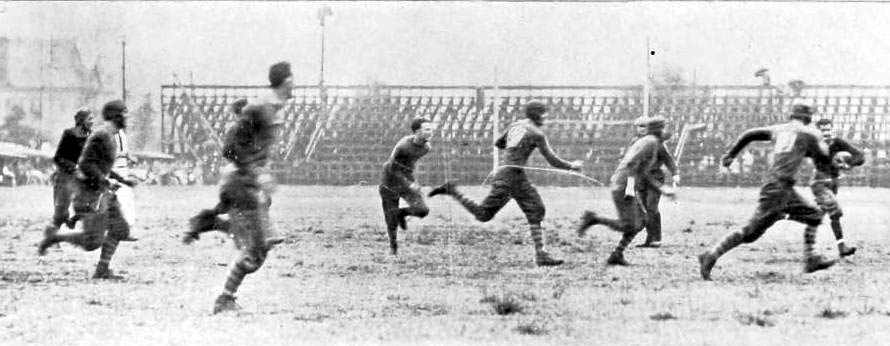 Photo during the 1914 Tulane University vs. LSU football game